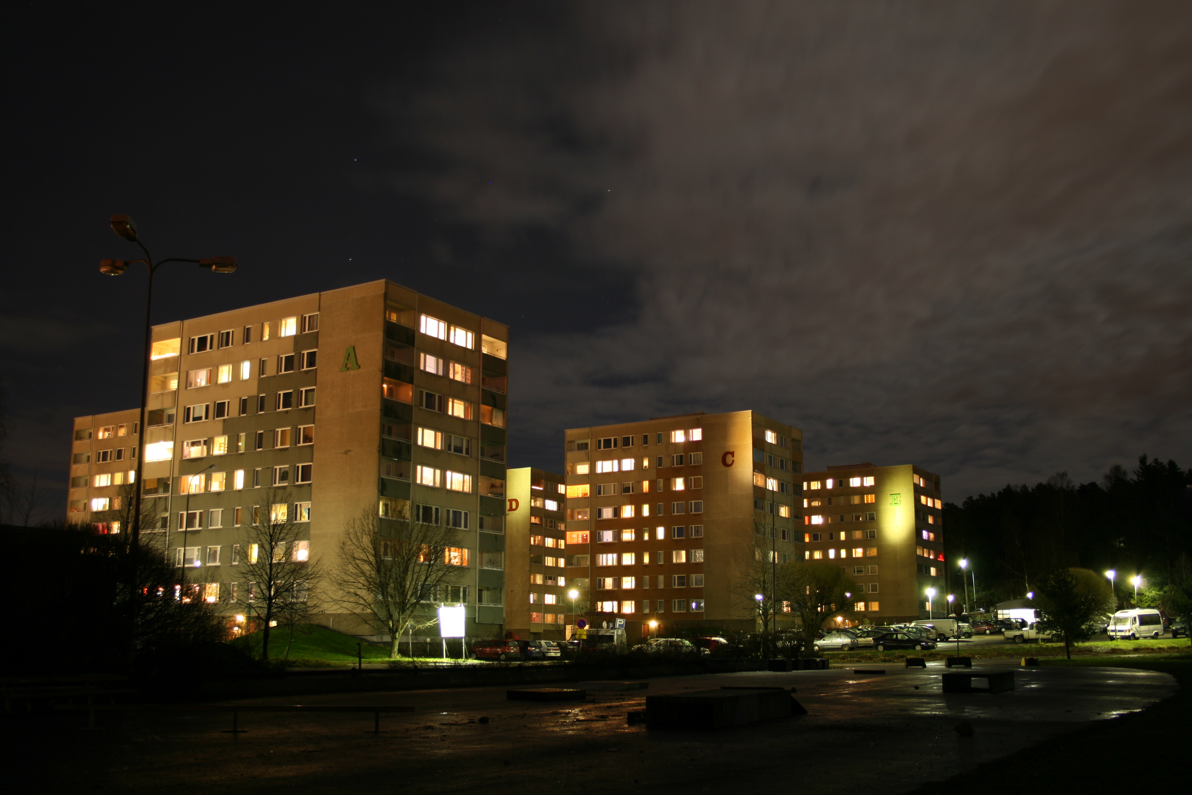 Jyrkkälä, a district of Turku, by night, after some light rain.